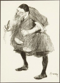 Stanisław Kuczborski (1904): Caricature of actor - director Józef Kotarbiński (1899–1905) as Shylock in The Merchant of Venice, from Teka Melpomeny collection